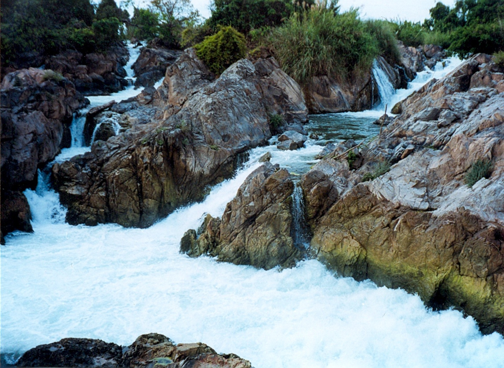 Somphamit falls of the Mekong River, Si Phan Don, Laos.